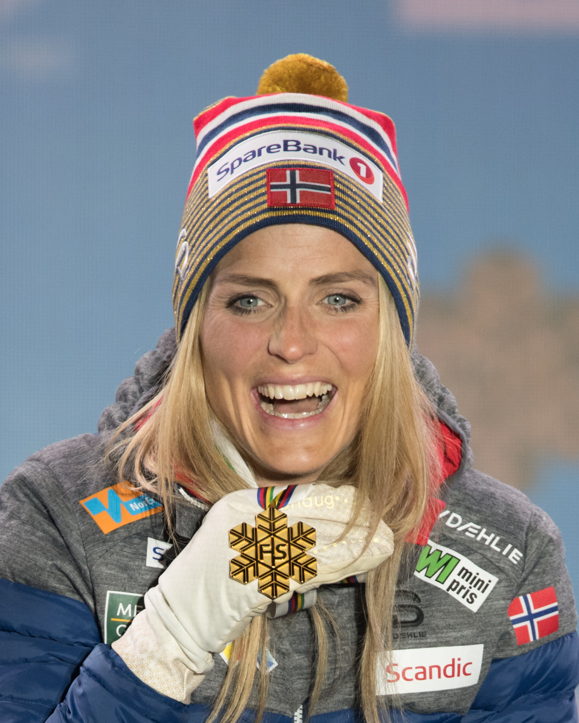 FIS Nordic Wolrd Ski Championships Seefeld 2019 - Medal Ceremony at the Medal Plaza. Picture shows Therese Johaug (NOR).